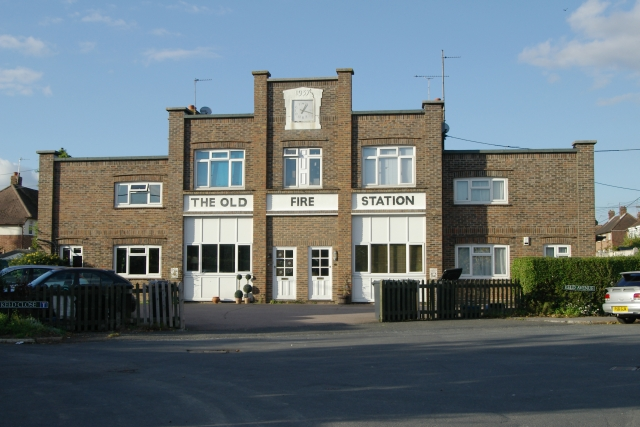 Uckfield old fire station, Keld Avenue, Uckfield, East Sussex, dating from 1937, now converted into dwellings